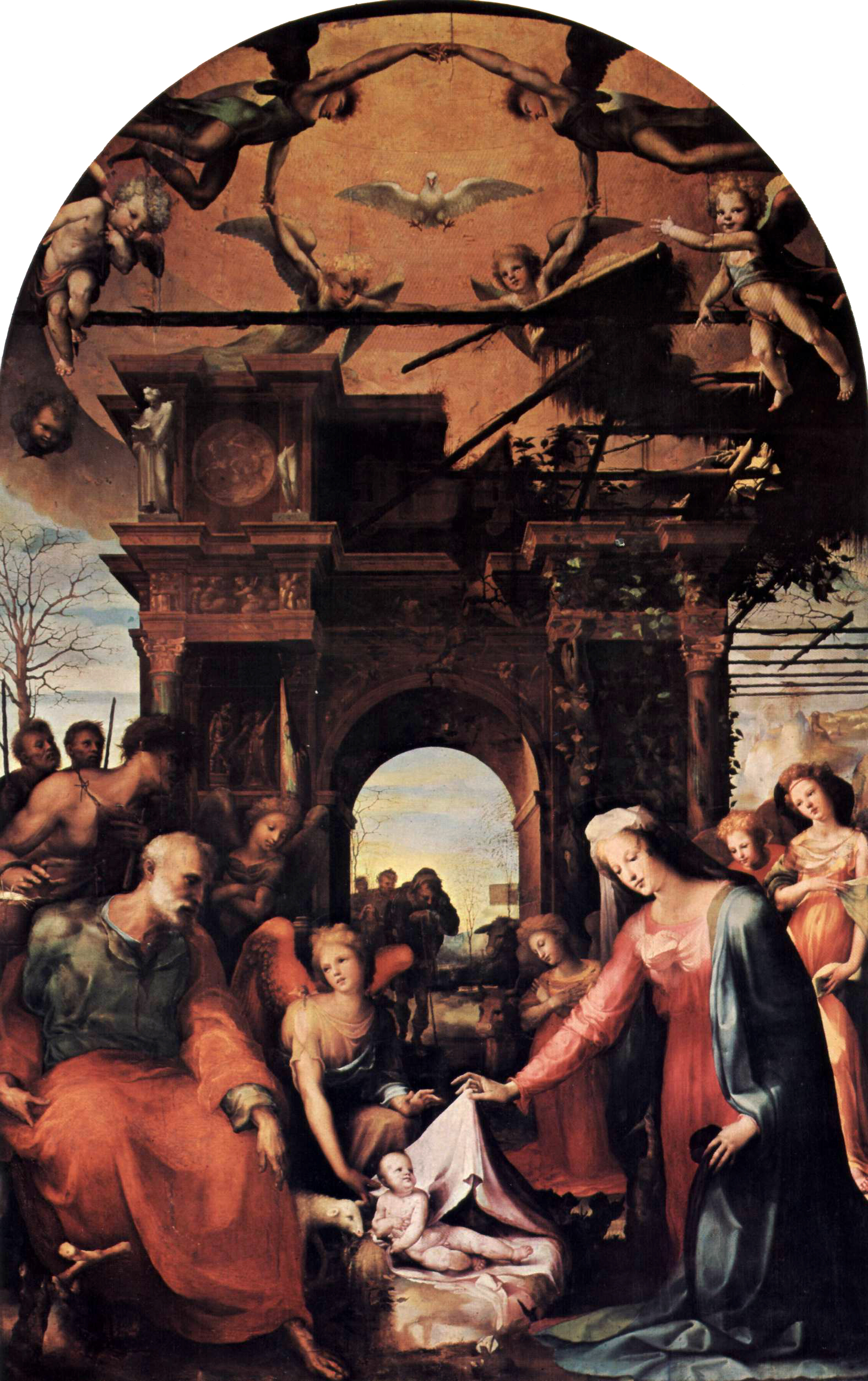 Here the baby is born into the world. Mary and Joseph look upon the baby Jesus with astonishment. The Sheperds also visit the new born king. At the top is the Holy Spirit encircled by Cherub Angels.